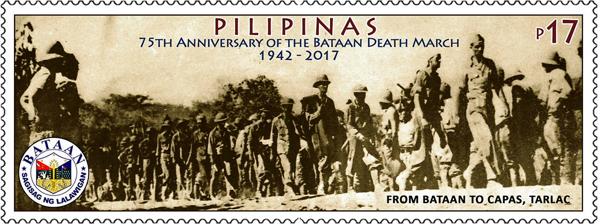 75th ANNIVERSARY OF THE BATAAN DEATH MARCH